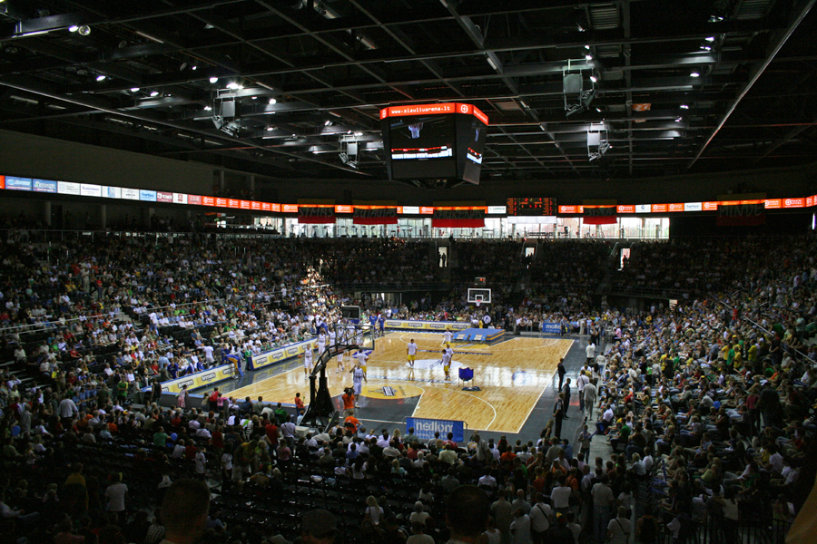 New basketball arena in Siauliai